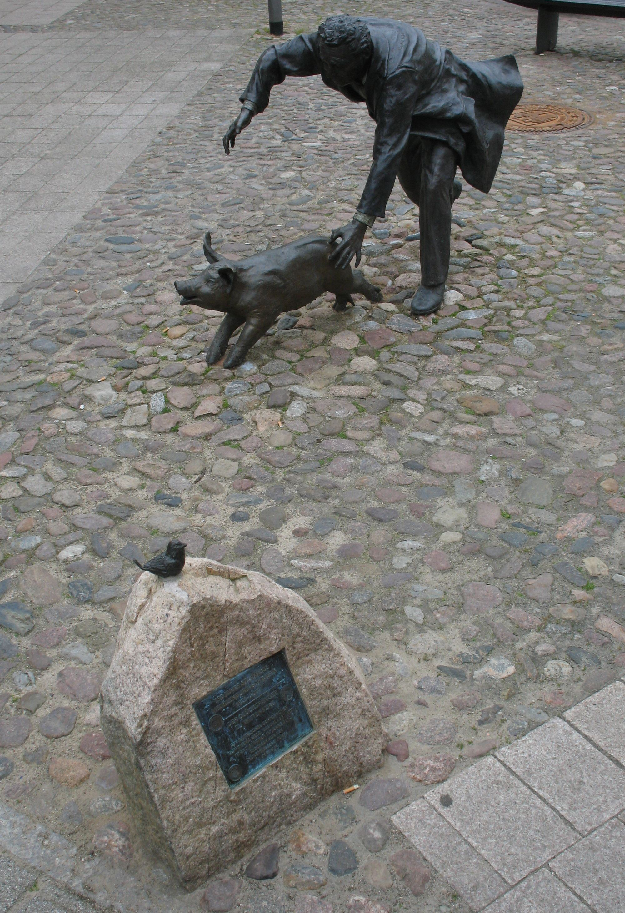 Sculpture by Bernd Streiter in Wittenburg in Mecklenburg-Western Pomerania, Germany